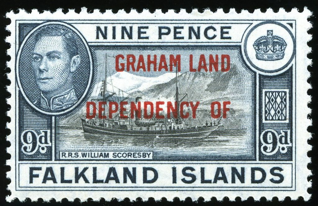 A nine pence Falkland Islands stamp overprinted for use in Graham Land in the Falkland Island Dependencies.